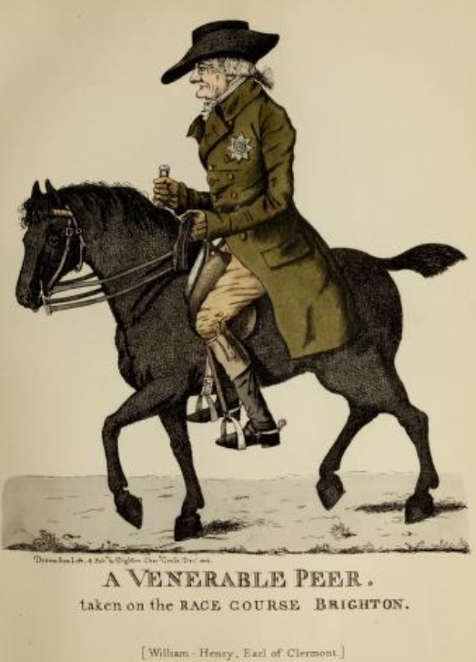 Caricature of William Fortescue, 1st Earl of Clermont (1722-1806), "drawn from life & published by Dighton, Charles Gross, Dec. 1802"